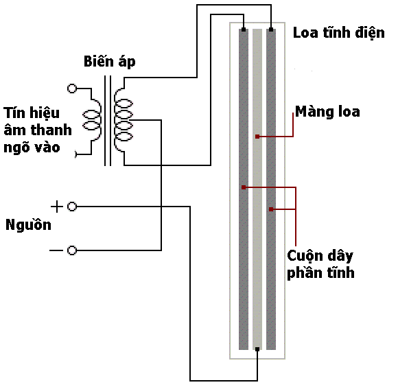 Schematic of an electrostatic speaker set-up in Vietnamese.